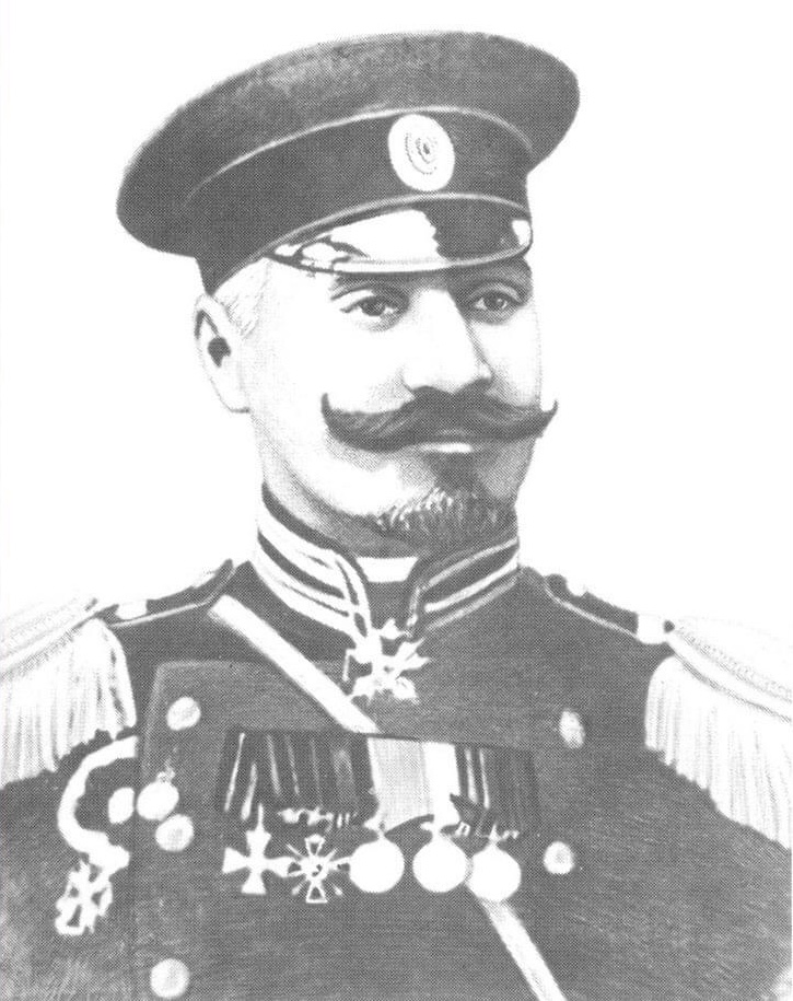 Ali-Agha Shikhlinski, Deputy Minister of Defense and General of the Artillery of Azerbaijan Democratic Republic